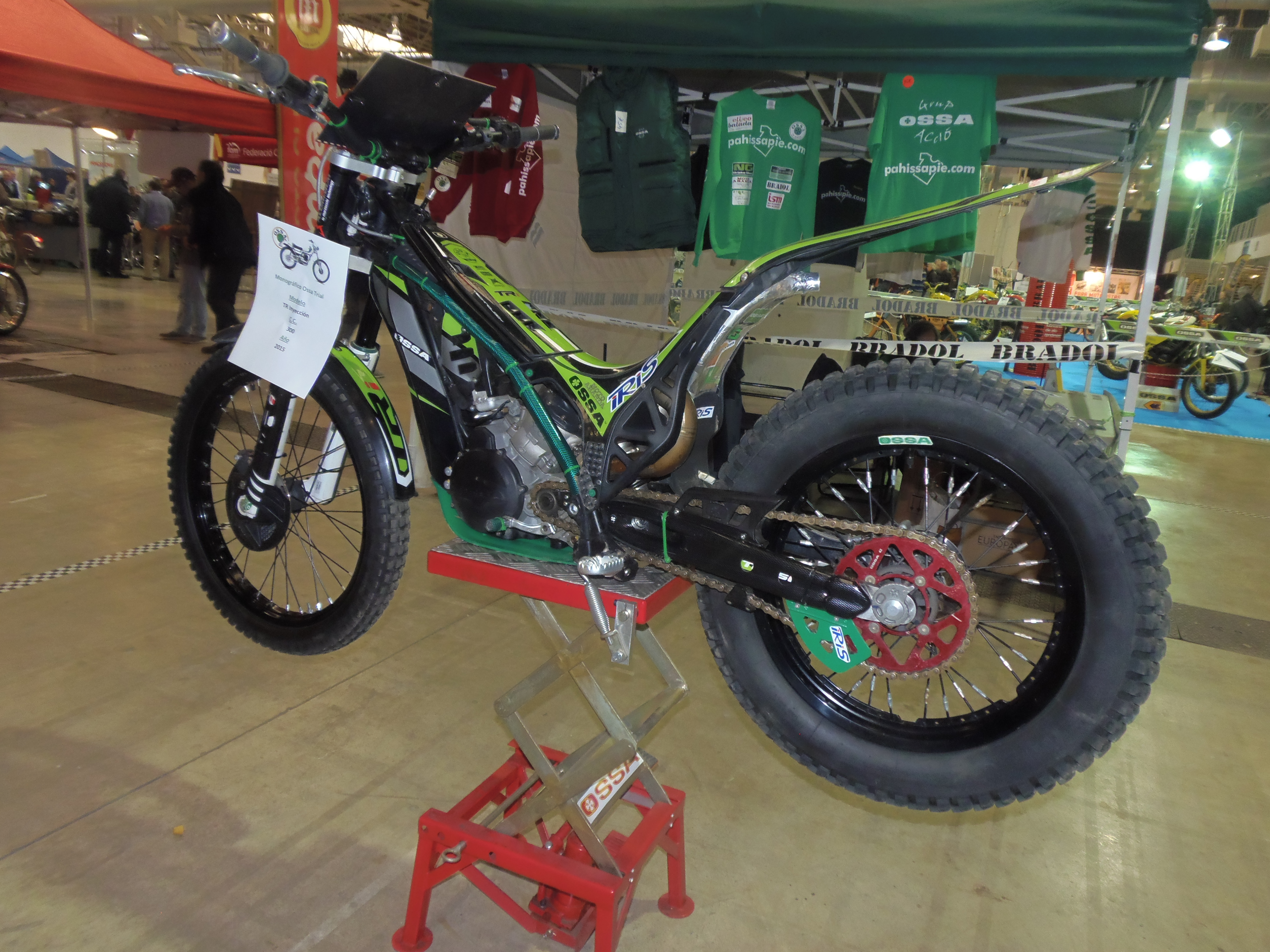 Ossa TRi 300, 2015